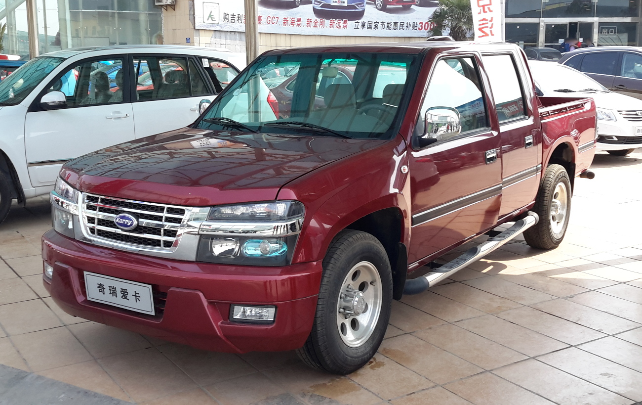 Karry Aika photographed in Xi'an, Shaanxi province, China.